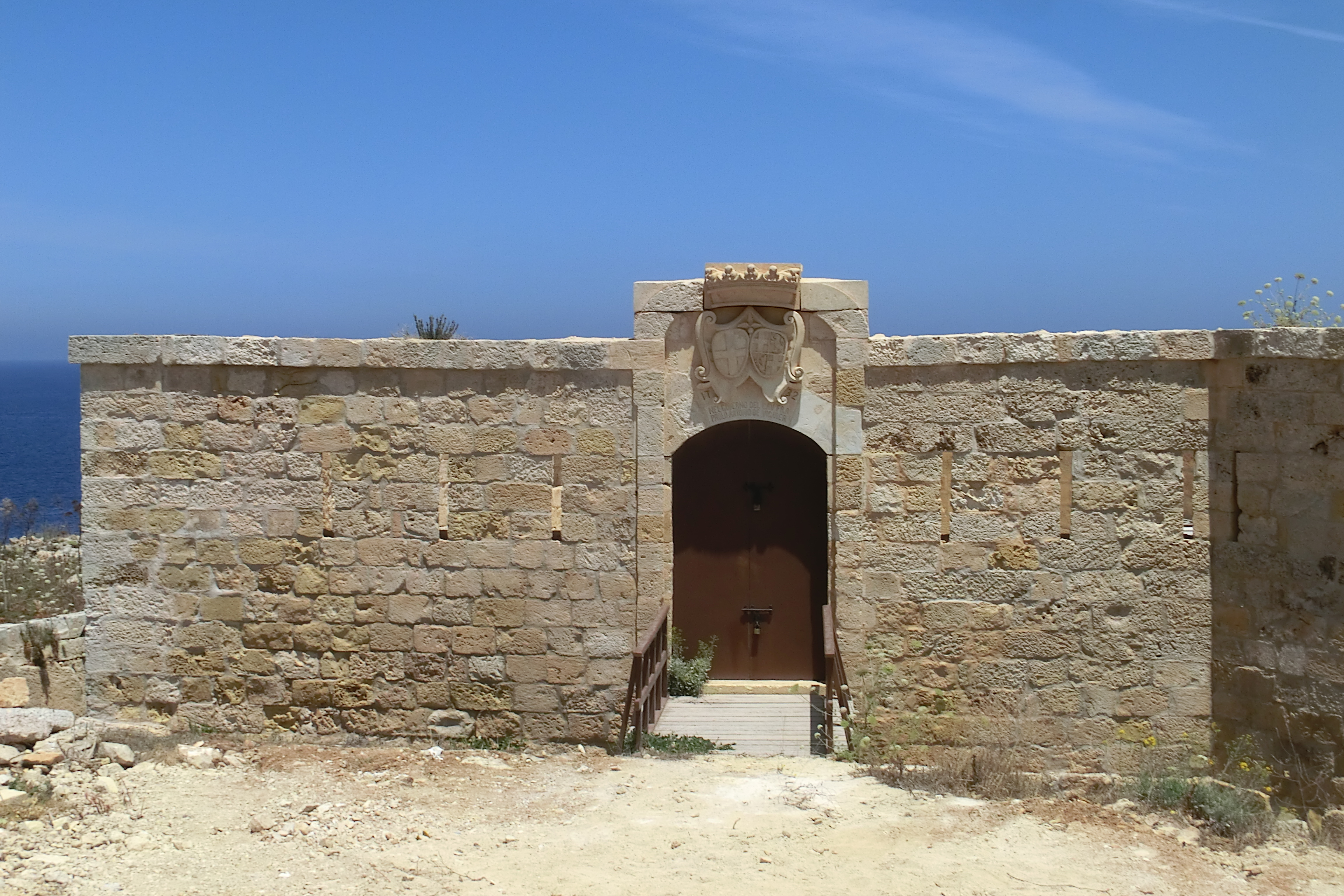 Saint Anthony's Battery, Qala, Gozo, Malta.